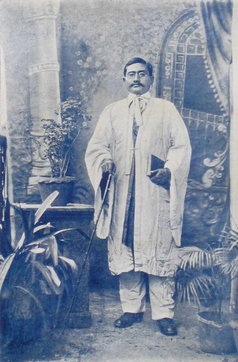 Nepalese Martyr Shukra Raj Shastri (1894-1941) in graduation robes.